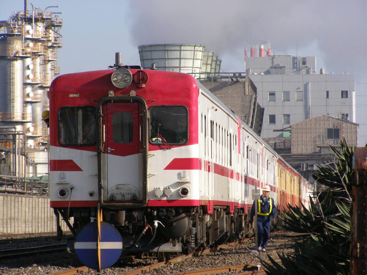 A rake of former JR East KiHa 52 DMU cars (with Morioka-liveried KiHa 52 144 nearest camera) at Kanagawa Rinkai Railway Chidoricho yard awaiting shipping to Myanmar